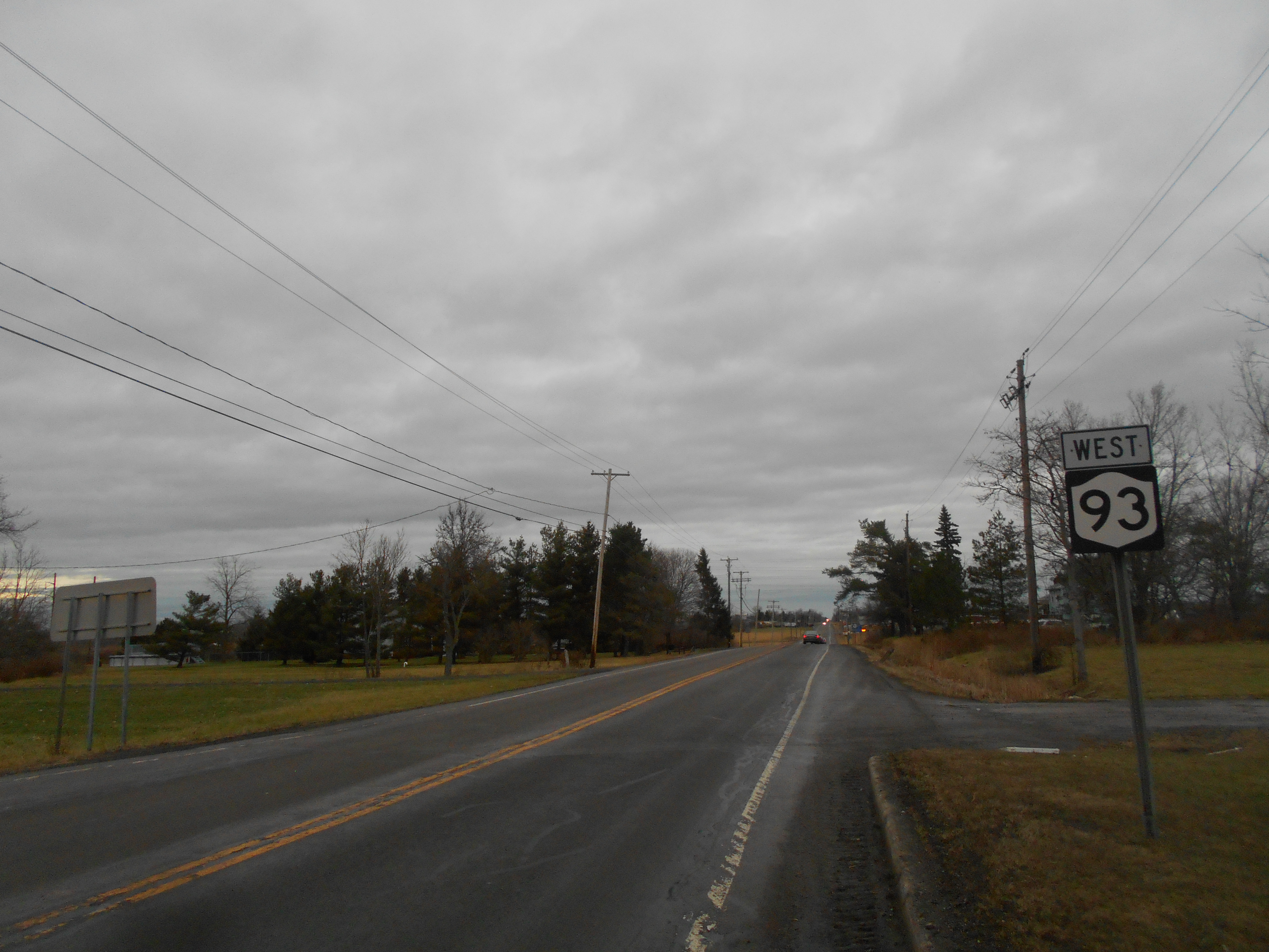 New York State Route 93 in Cambria, New York.